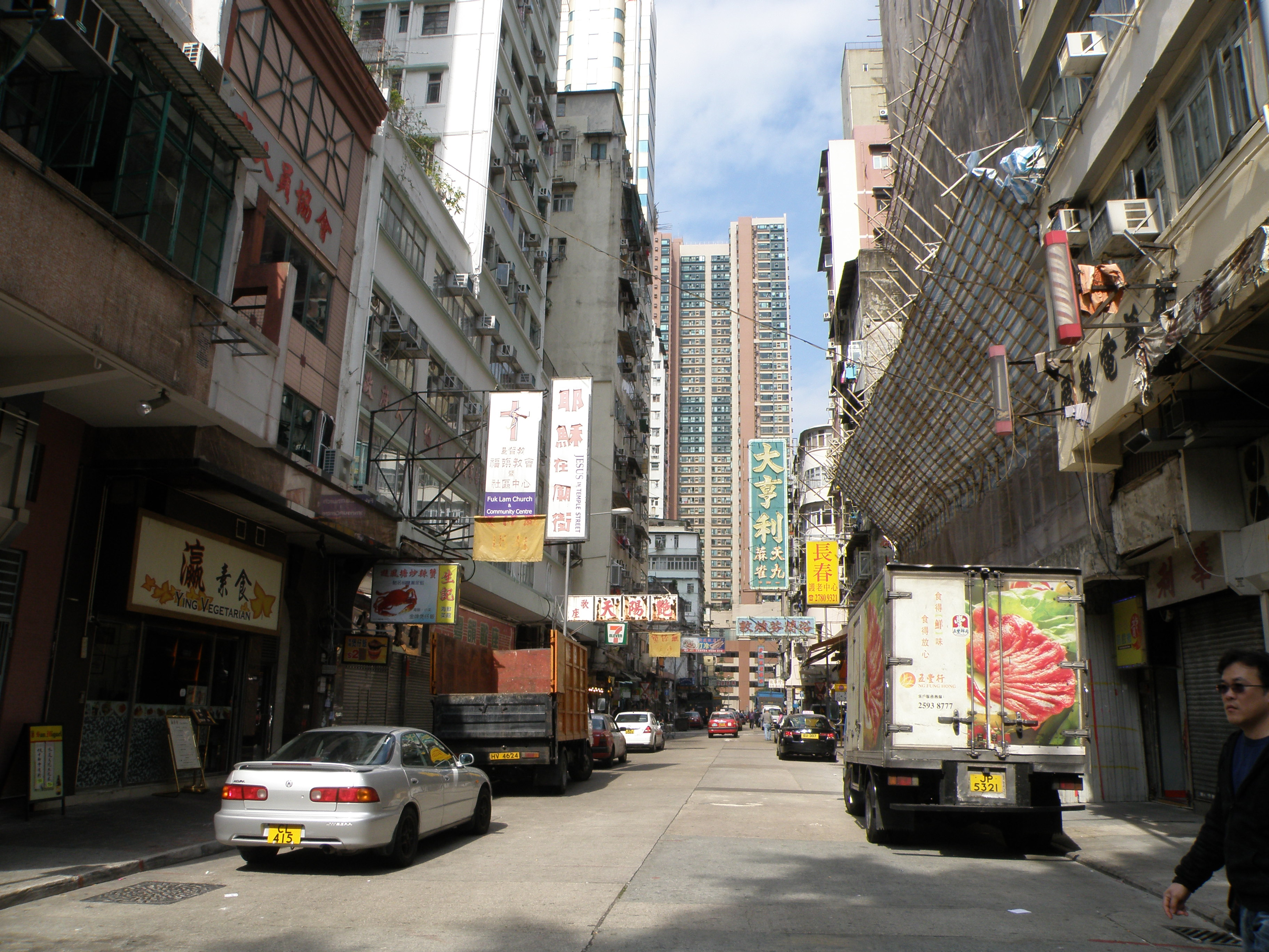 Temple Street in Yaub Ma Tei, Hong Kong.